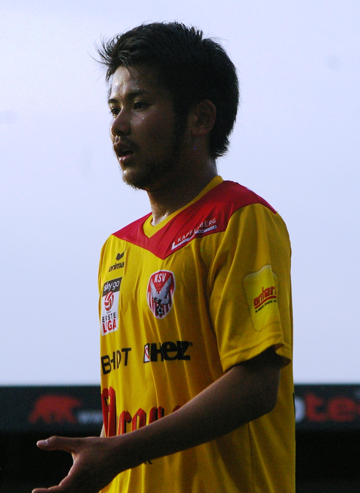 league match Austria 2nd league